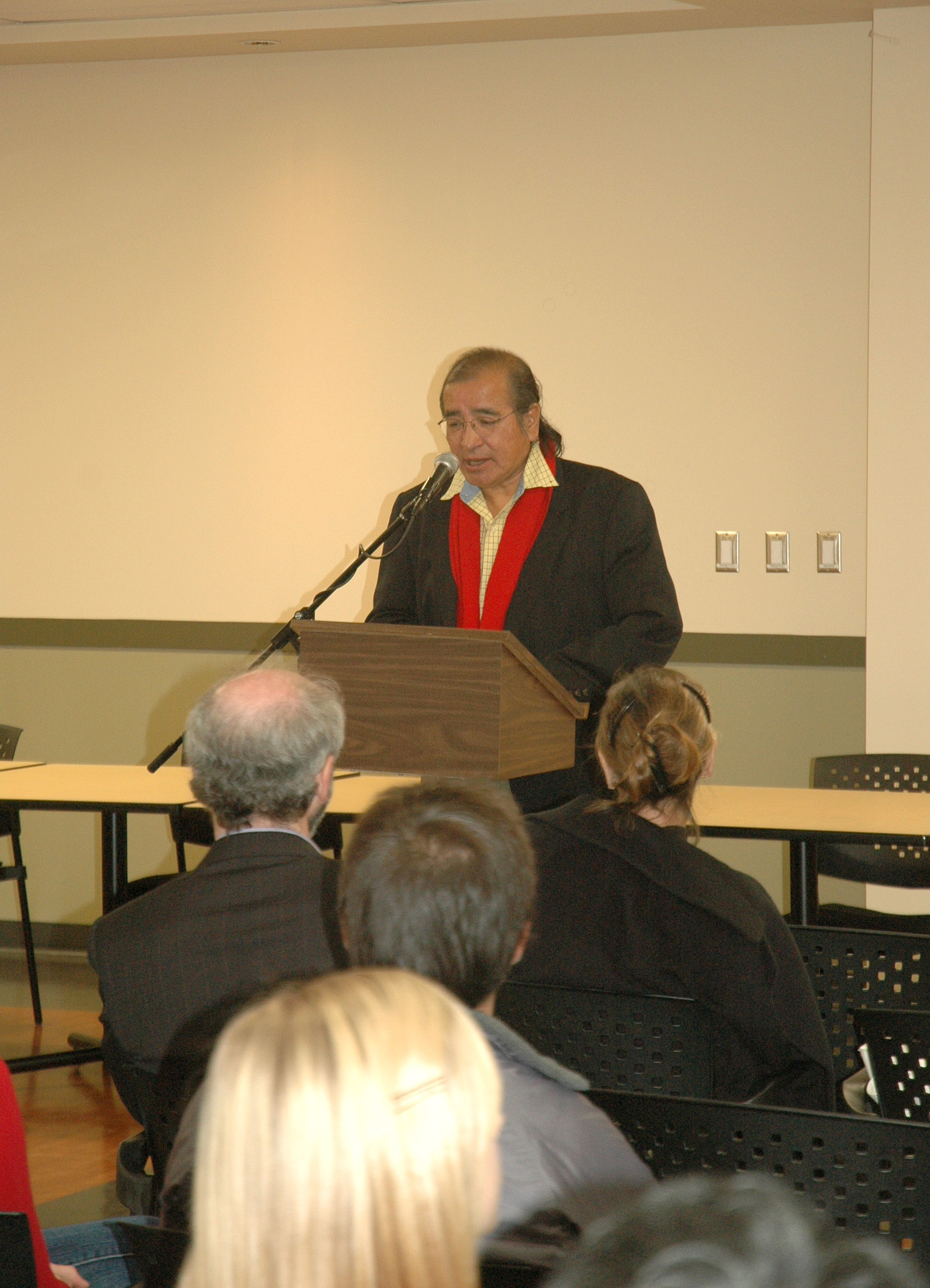 Tomson Highway, Oct. 2011, UFV Abbtosford